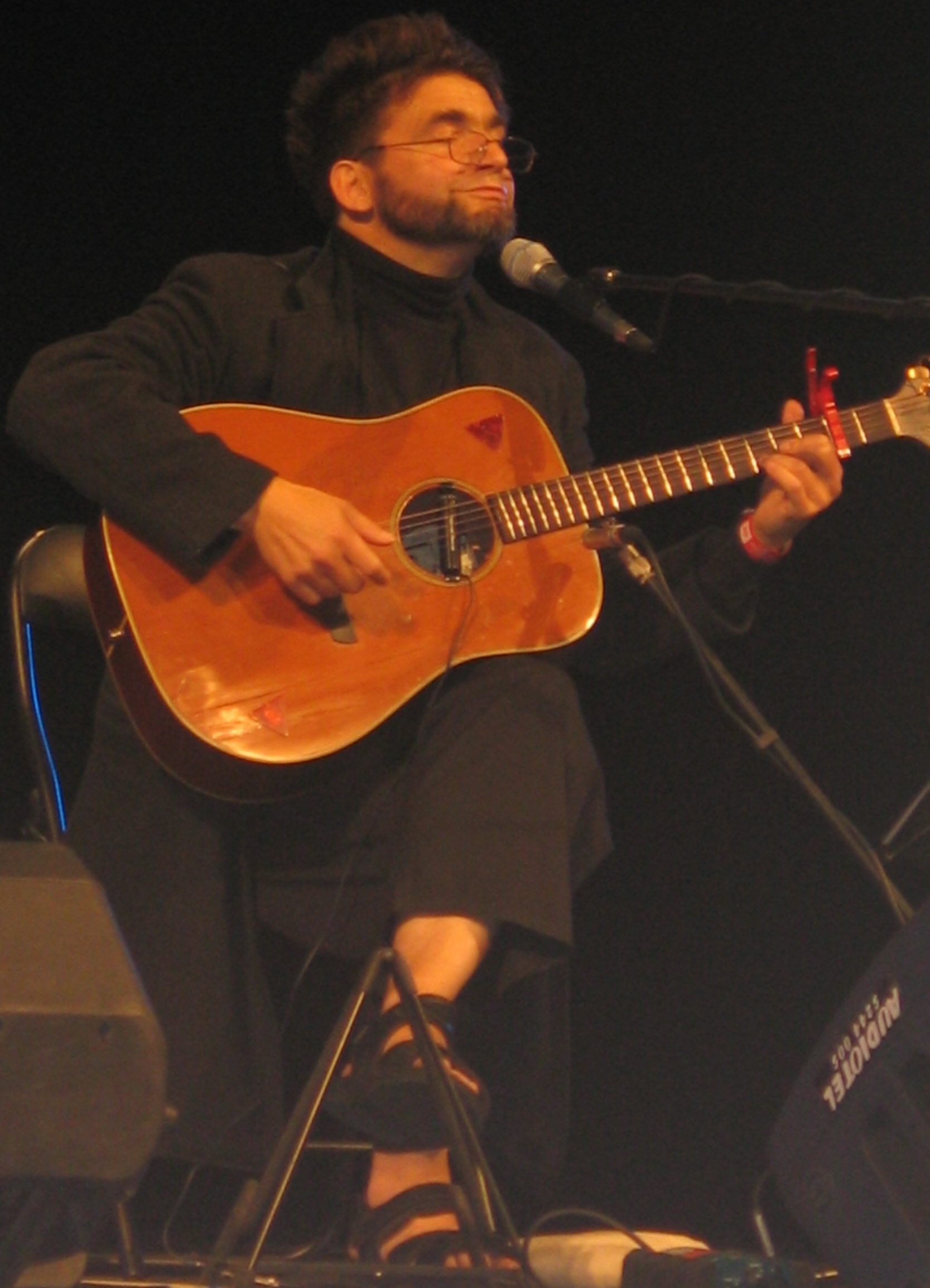 Jaak Johanson, Estonian singer, performing in XV Viljandi Folk Music Festival